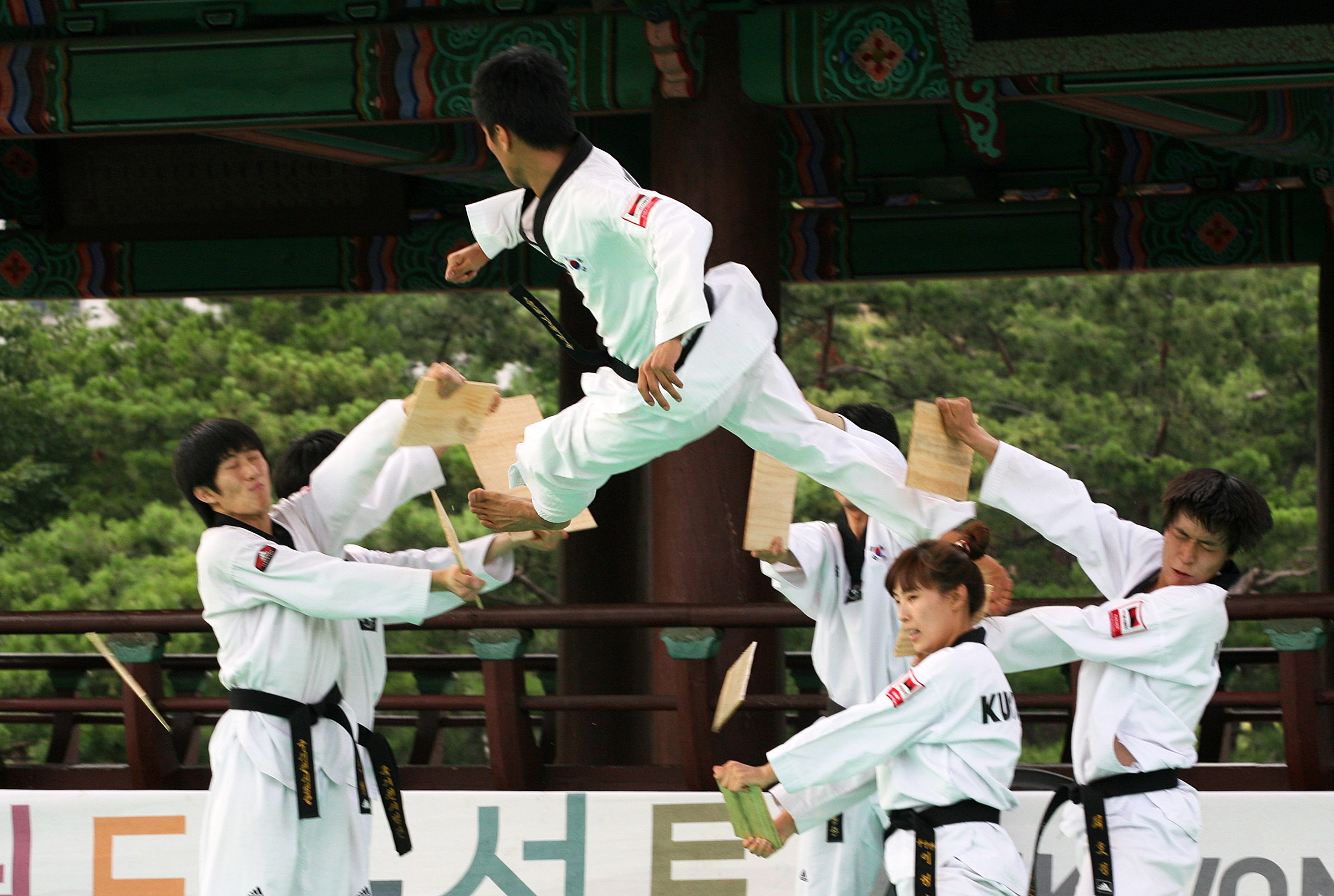 Kukkiwon Taekwondo Demonstration Team Taekwondo Concert at Namsangol Hanok Village 2012.07.21 (KOCIS Photo/ Han Jeon) 국기원 태권도 시범단 남산한옥마을 관광객을 위한 정기 시범 (콘서트) 2012년 7월 21일 (토) (문화체육관광부 해외문화홍보원 / 전한)